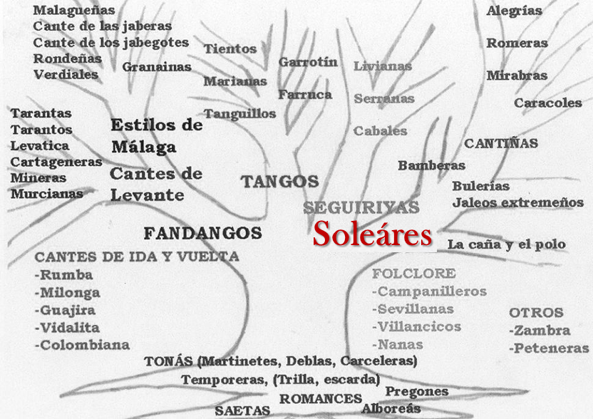 Soleáres in Flamenco Palos Tree (based on a tree published at